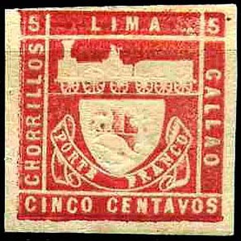 The world's first commemorative stamp, Peru (1870). All catalogues get the issue date of the Trencito wrong, Julian Lugo believes it was issued in April 1870. This is backed by expertly certified and acknowledged covers.